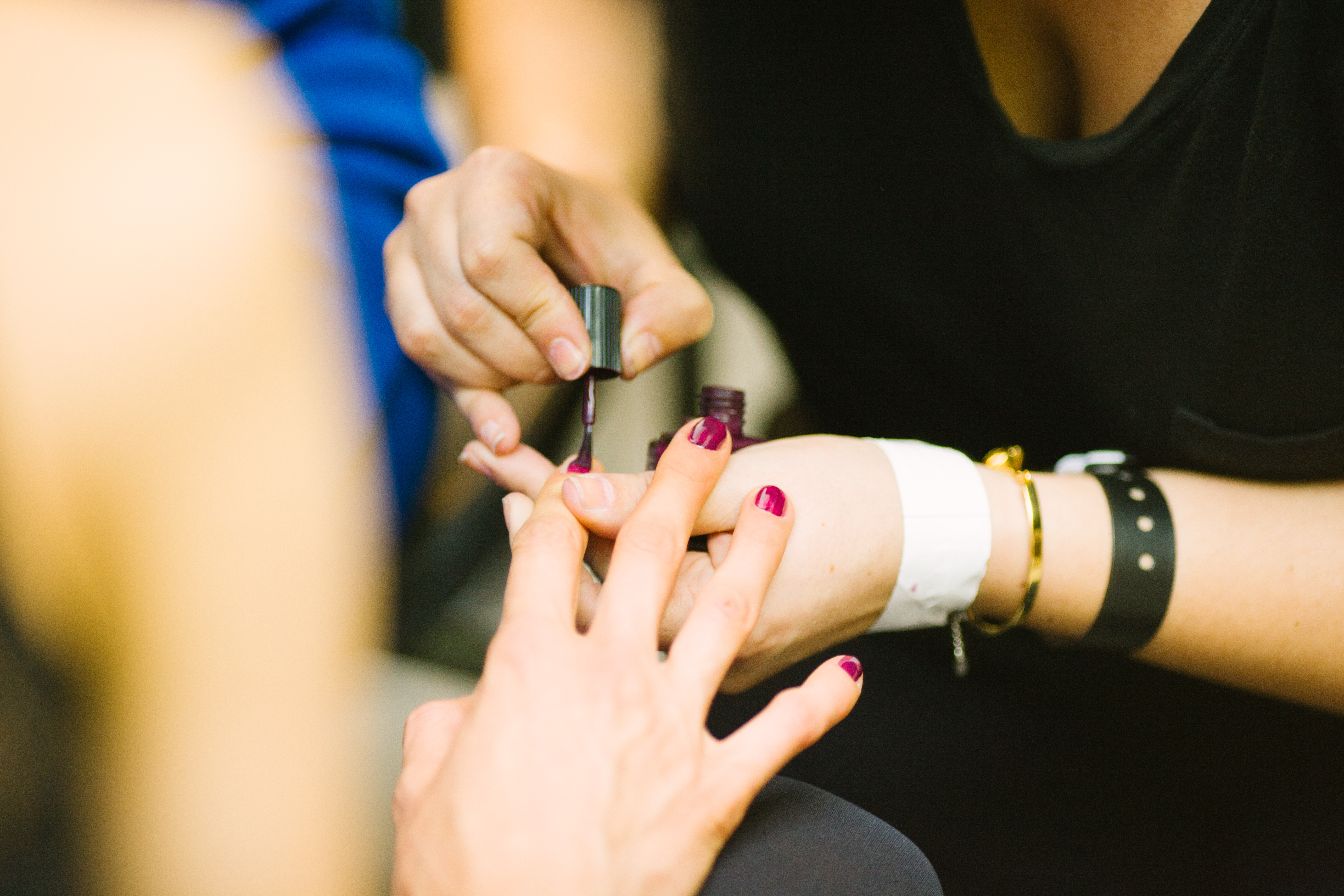 Kris Atomic 2016-03-14